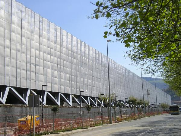 Bilbao Exhibition Centre, Avenida de Euskadi side. Own photograph, taken the 14th of April 2004.